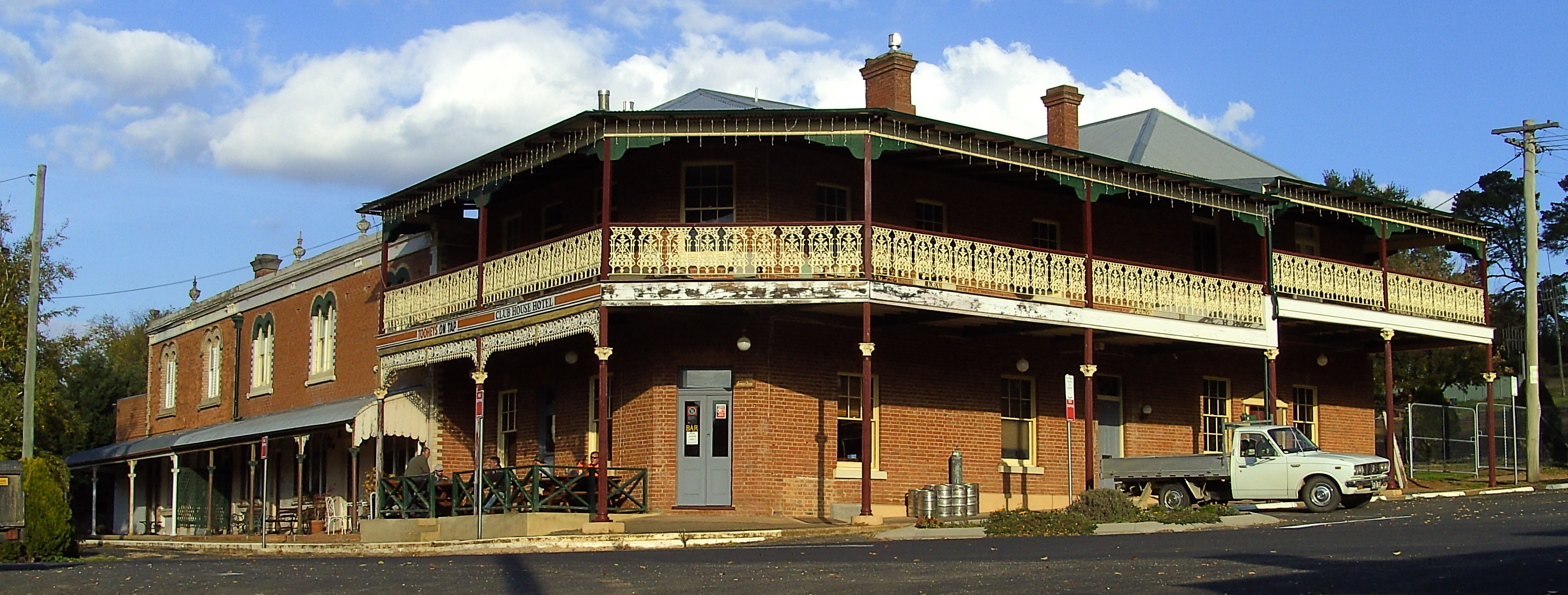 Rockley Pub (Clubhouse Hotel) , corner of Hill Street and Rockley Road, Rockley, New South Wales.